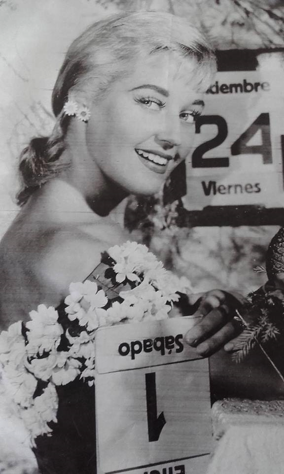 Analía Gadé celebrando las fiestas de Fin de Año en 1954